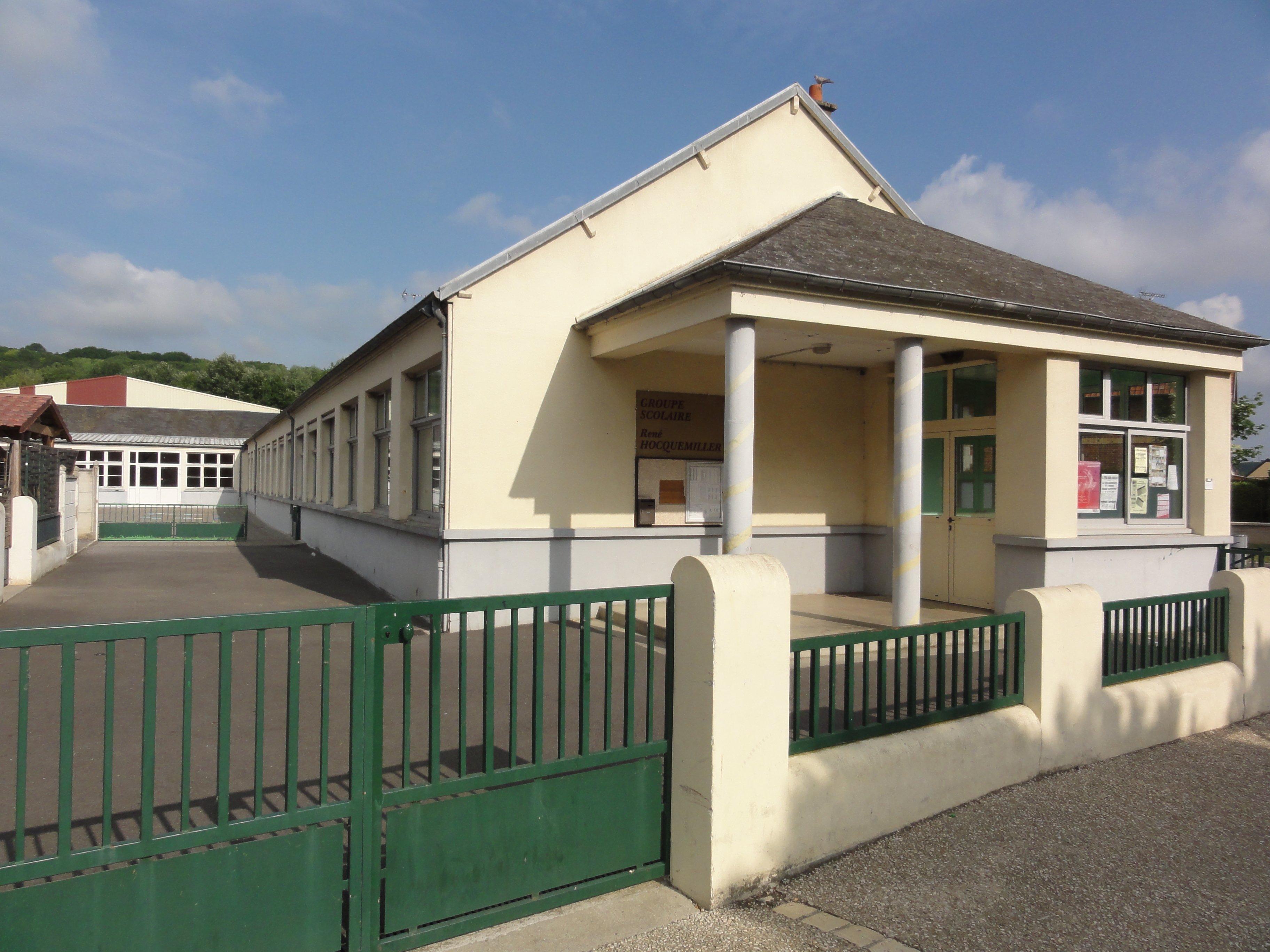 Courmelles (Aisne) école